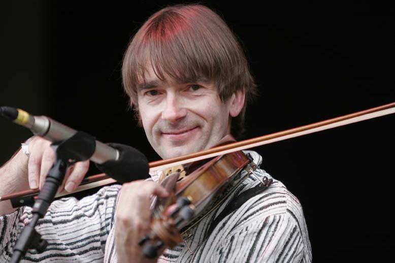 Simon Mayor at Fairport's Cropredy Convention, 2005